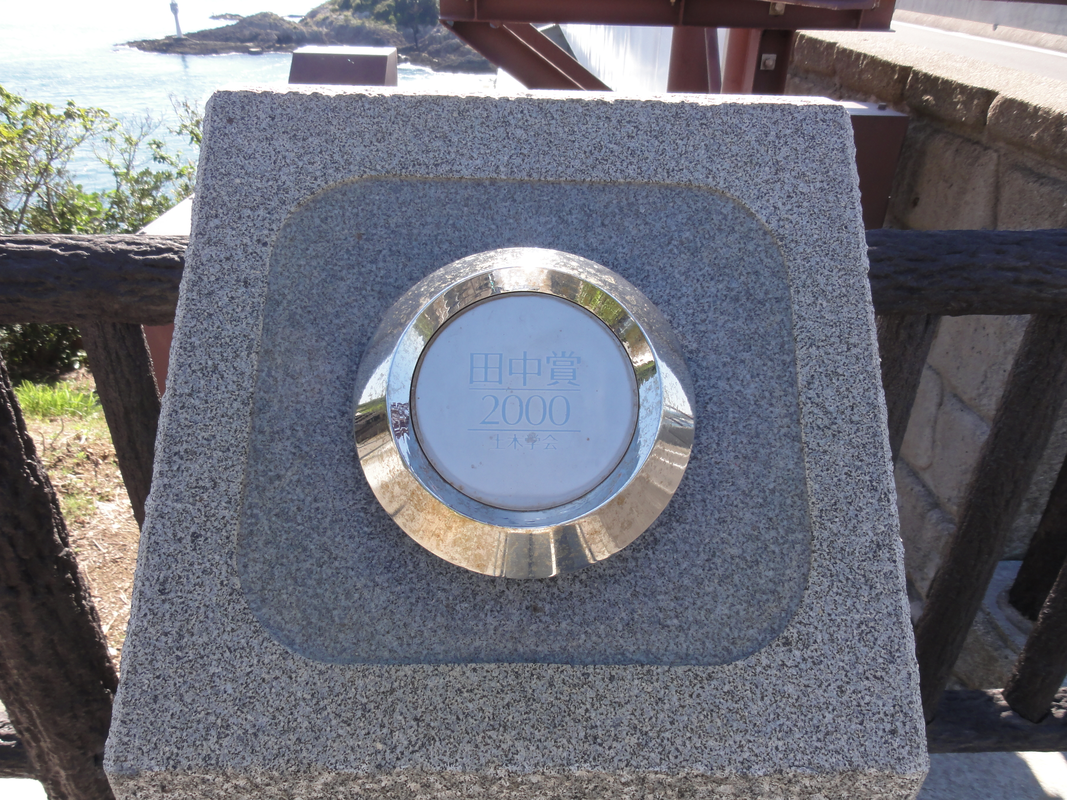 Monument of JSCE Tanaka Awards,Japan